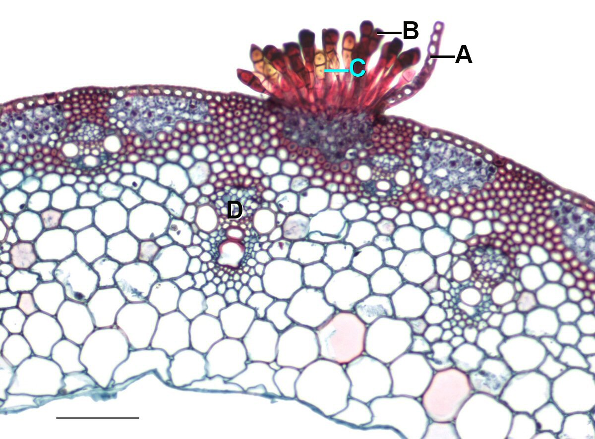 Light microscopy of Puccinia grammis with the telia and its teliospores on the epidermis of the stem. A=Epithelium, B=Teliospore, C=Teliospore nucleus, D=Monocot vascular bundle. Scale bar = 0.1mm.